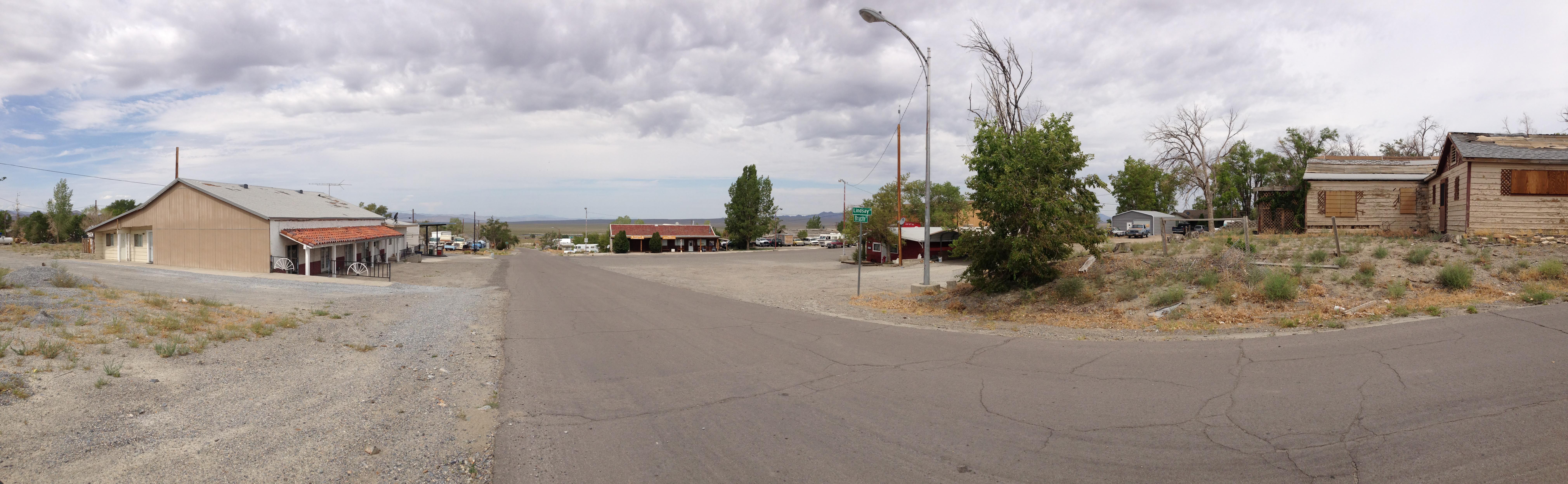 Panorama of central Gabbs, Nevada